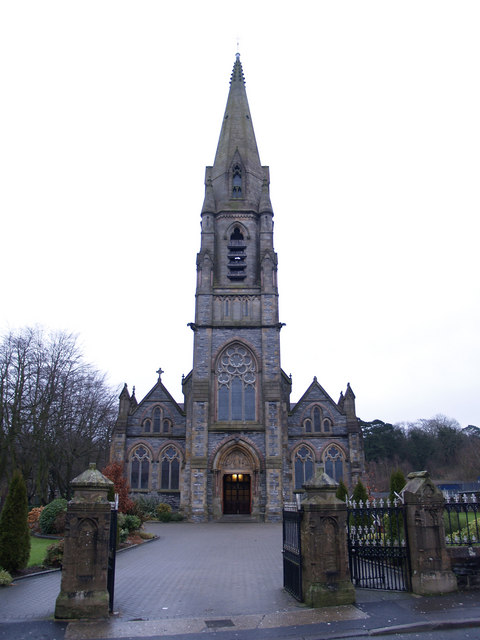 Barrack Street RC Church, Strabane. It is located at Barrack Street, between Fountain Street and the town centre.